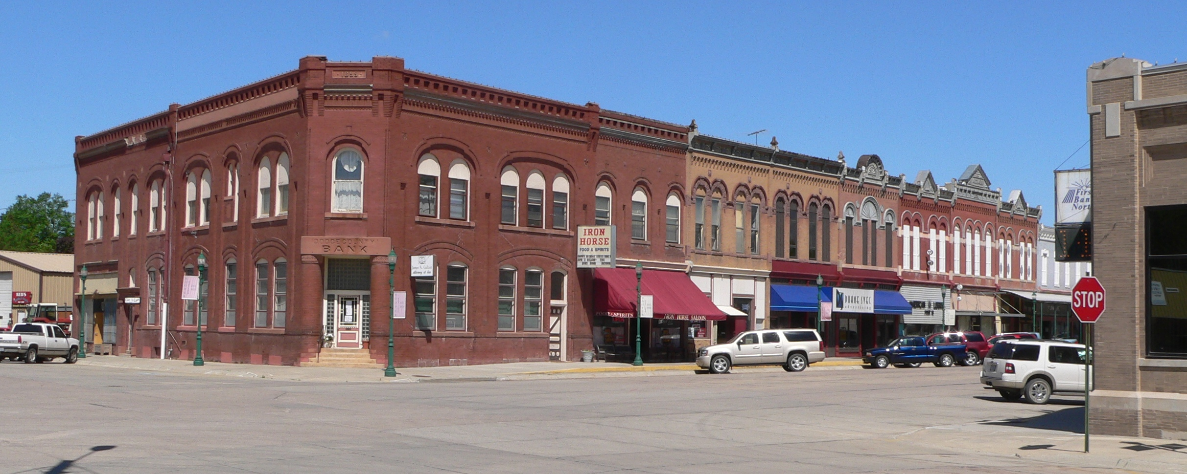 Northwest corner of Main and Fulton Streets in Hooper, Nebraska. Main runs north-south; Fulton runs east-west. The buildings shown on the west side of Main are all part of the Hooper Historic District, which is listed in the National Register of Historic Places.